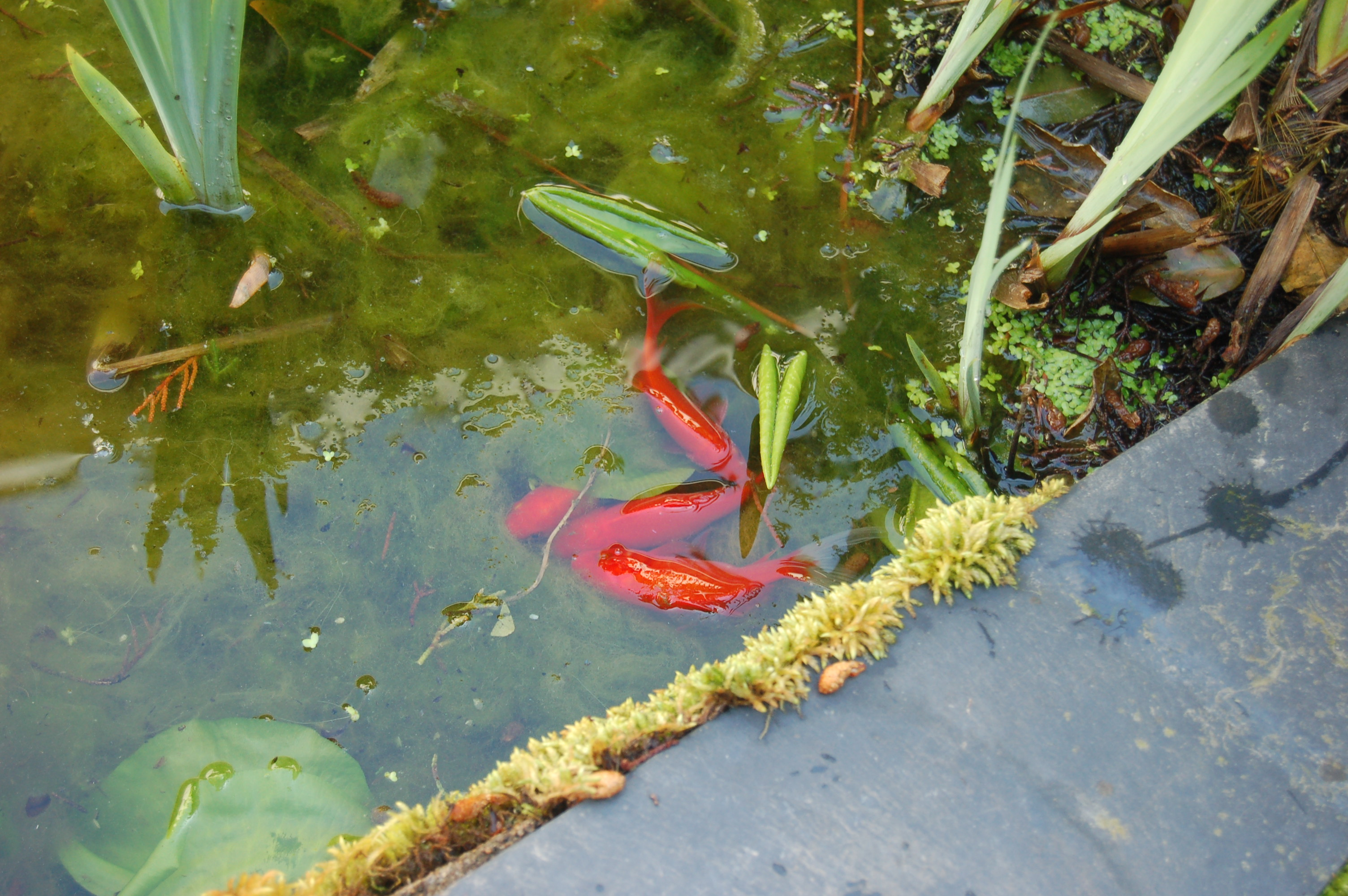 Goldfish (Carassius auratus) spawning in a pond – Stage 3.